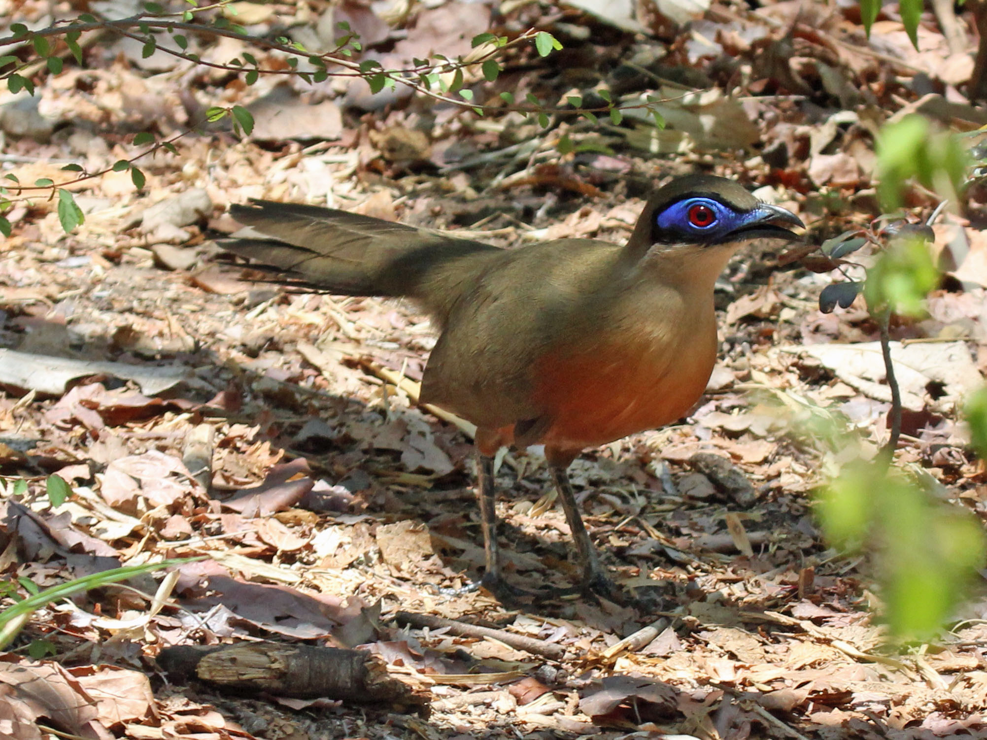 Coquerel's Coua (Coua coquereli) - Kirindy Forest, Madagascar